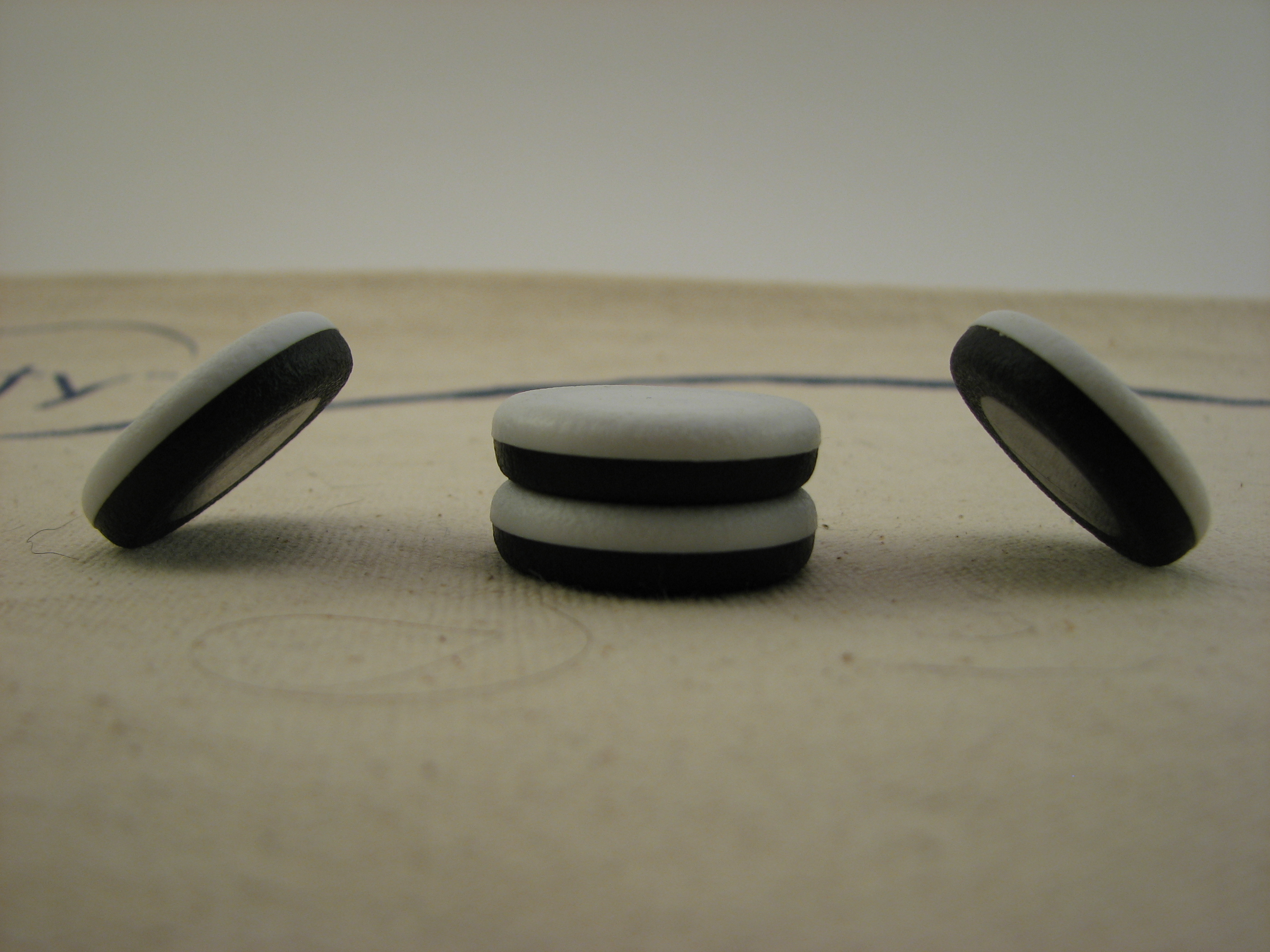 Magnetic pieces from the game Polarity. Pieces on the left and right, called leaners, are have magnetic fields which are keeping them balanced against a stack of two pieces, known as a tower, in the center of the photo